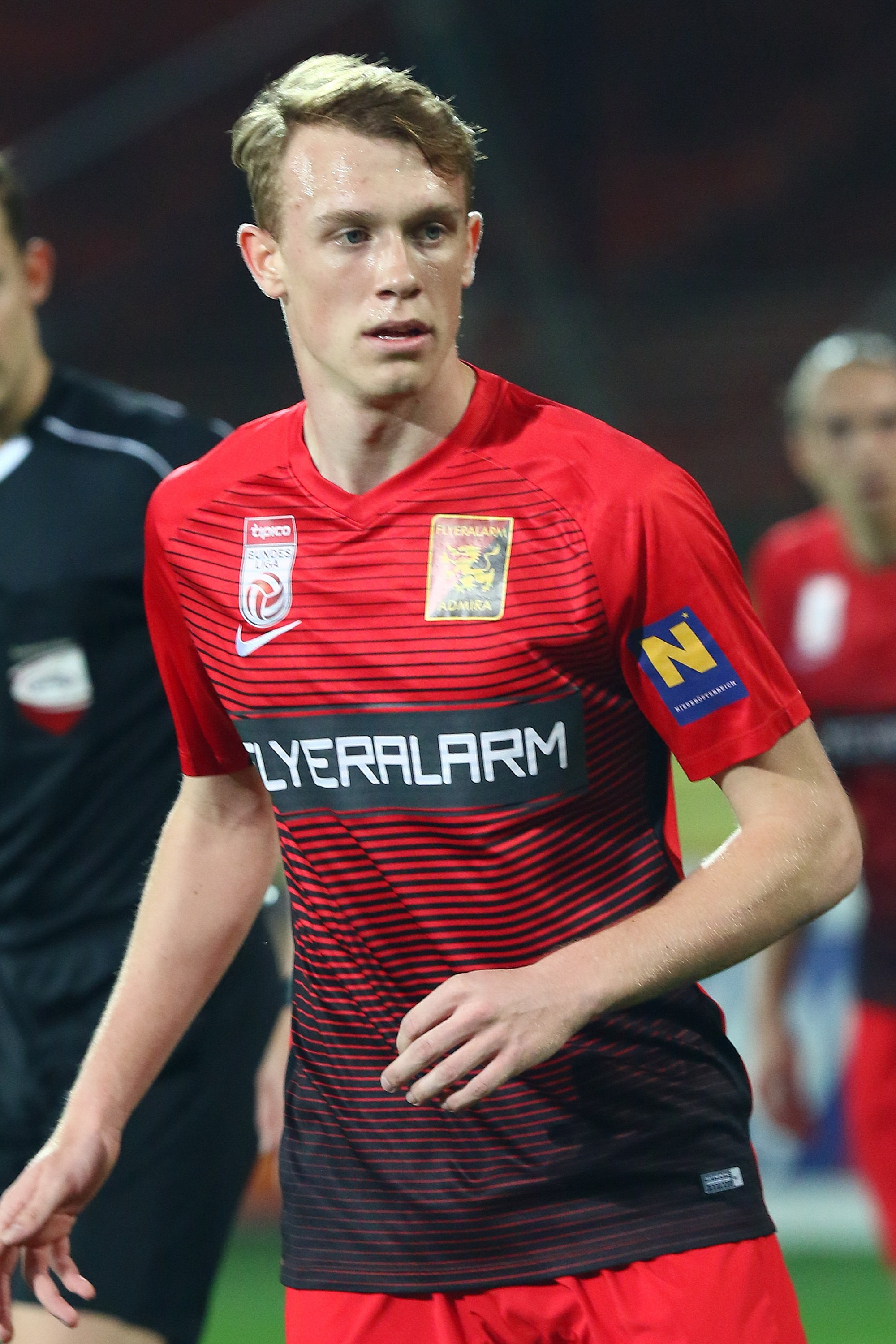 Championshipmatch of the Austrian Bundesliga 2017–18 FC Admira Wacker Mödling (red shirts) vs. FC Red Bull Salzburg (white shirts) 2-6 (1-3) at 2018-04-15 in the Bundesstadion Südstadt in Maria Enzersdorf. – The photo shows Pascal Petlach (FC Admira Wacker Mödling).